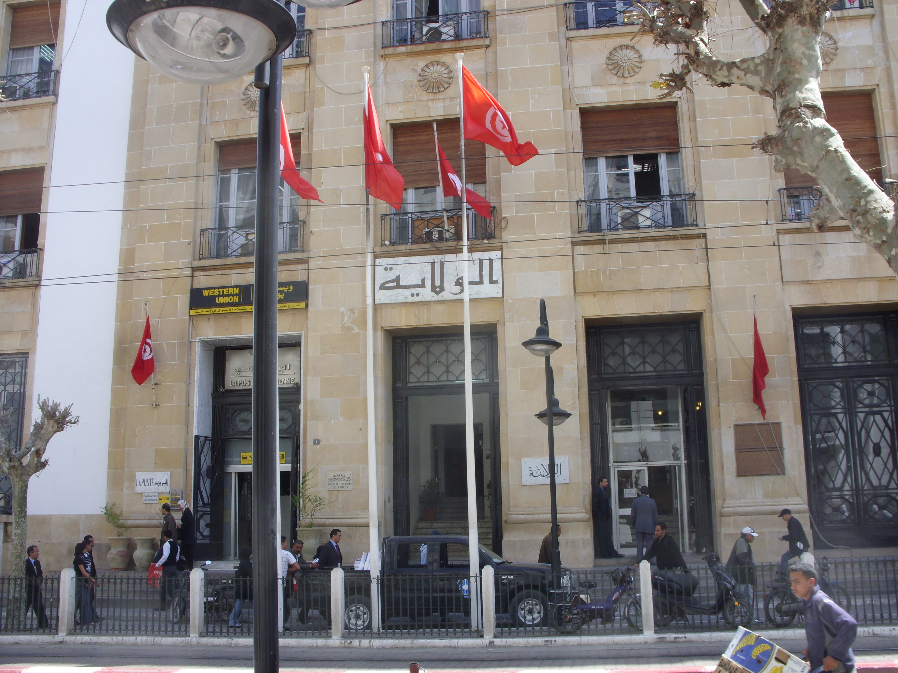 Tunis governorate building